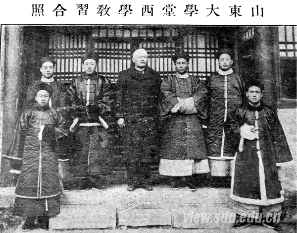 Faculty of Shandong College ("Western Studies").